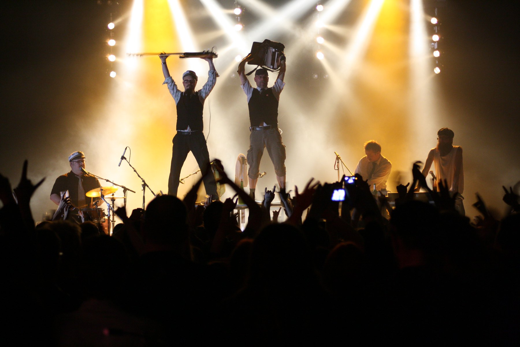 Eläkeläiset; Wiesbaden; Schlachthof